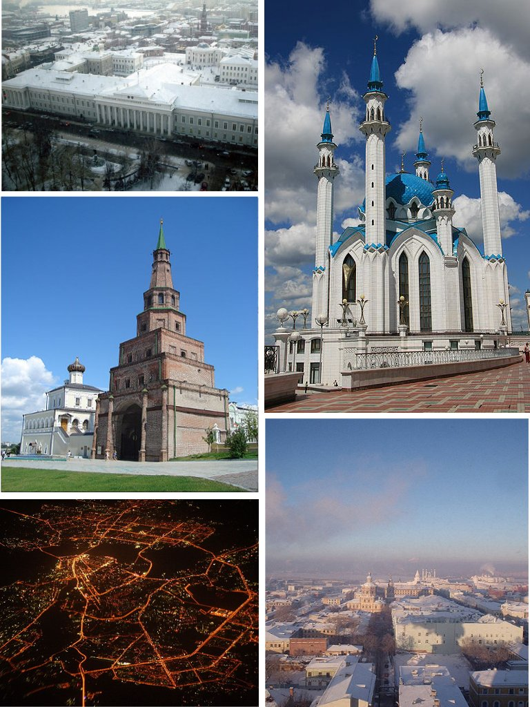 Church Kazan Söyembikä Tower Aerial photo of Kazan, Russia, taken at about 12:15 am local time, from aboard a flight from Vienna to Ekaterinburg.